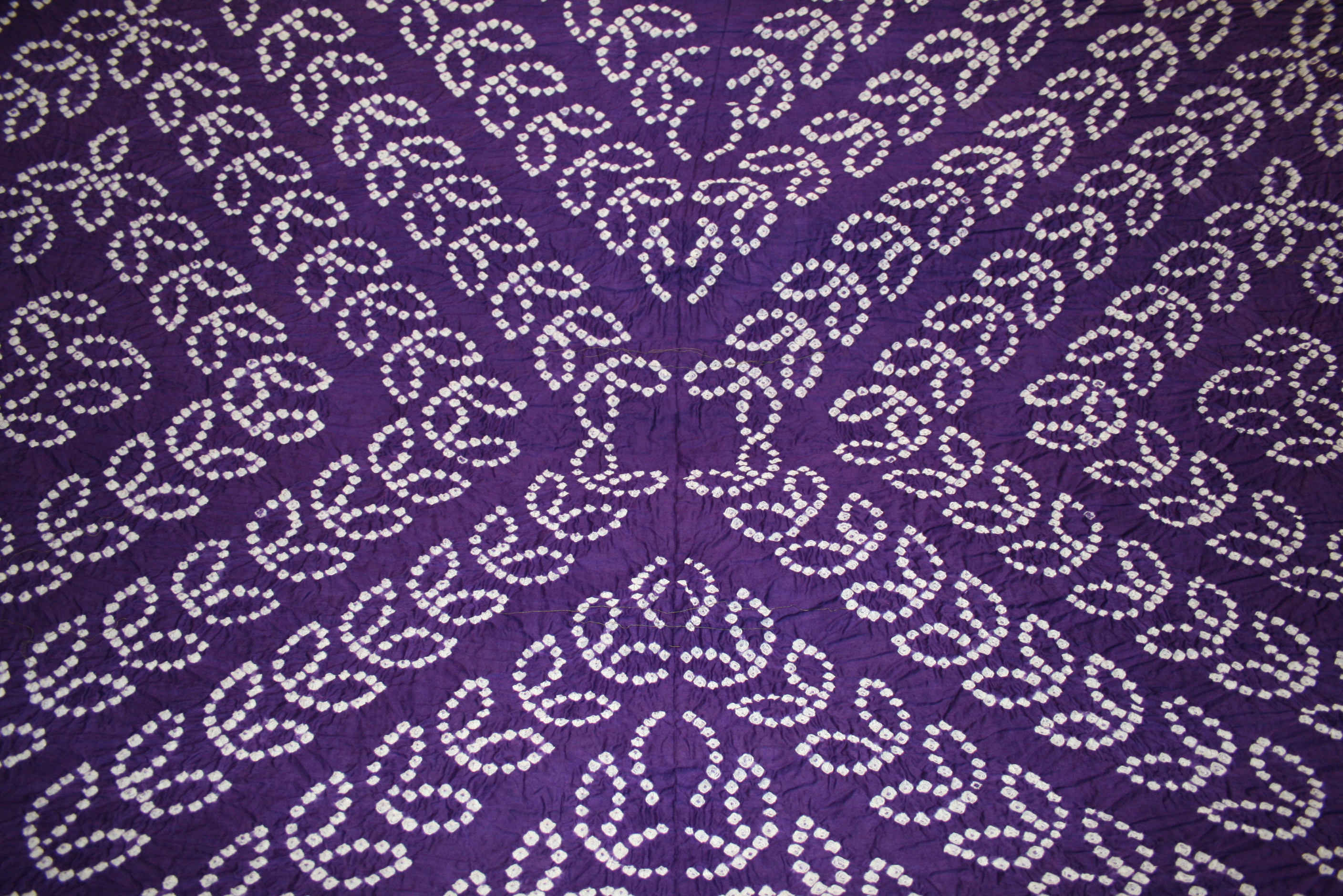 Bandhani work on a saree